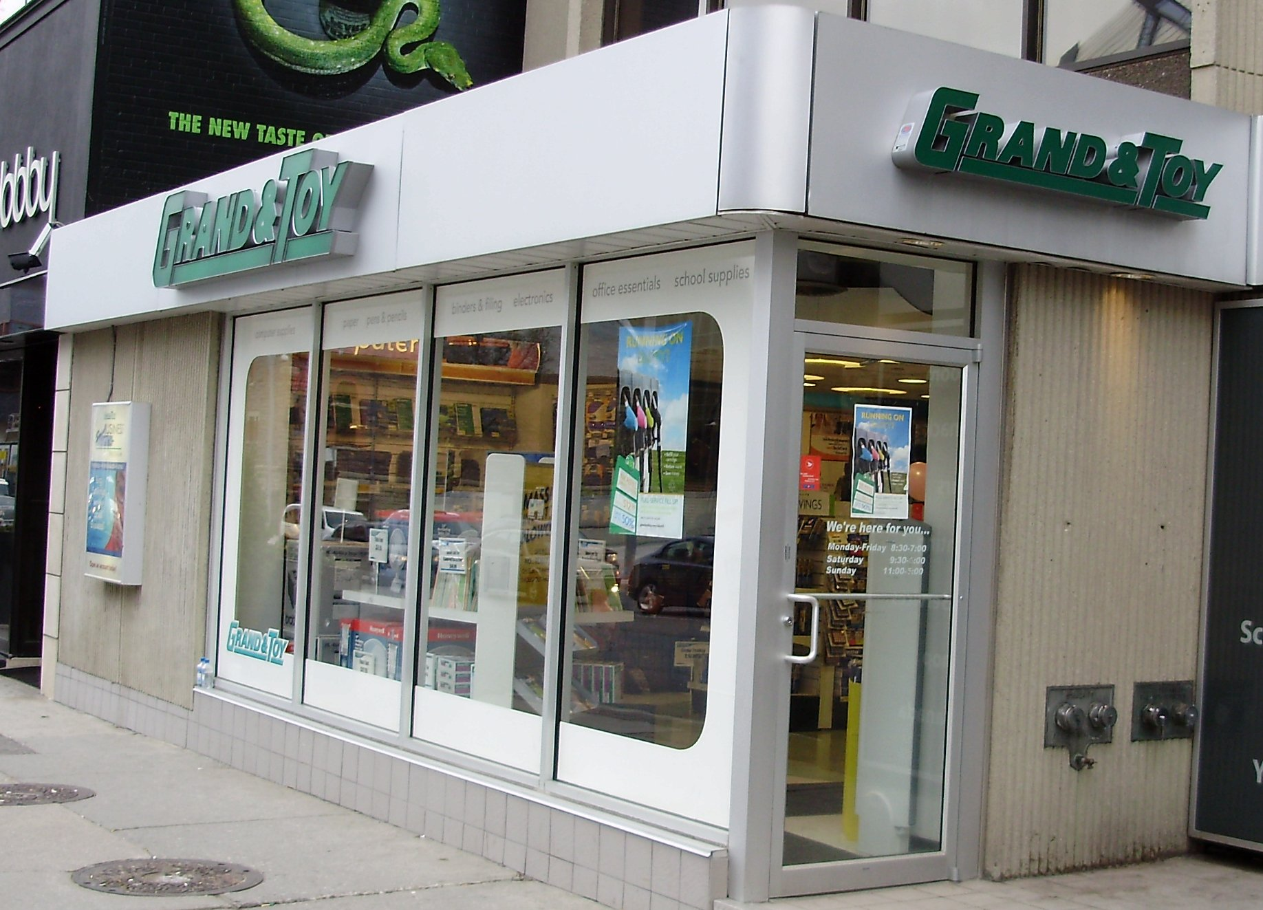 A Grand & Toy store along Bloor Street West in Toronto, Ontario.